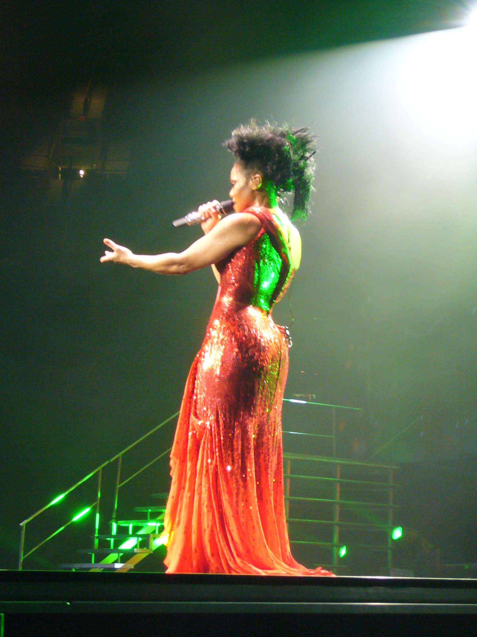 Janet Jackson, Vancouver